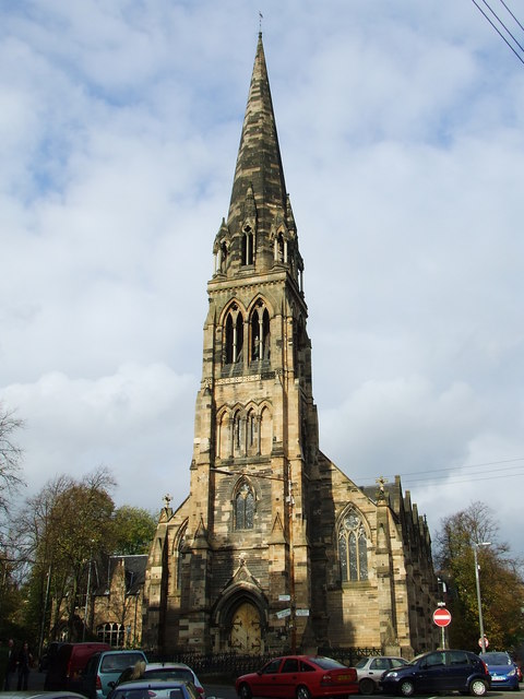 Former Dowanhill Parish Church. Now home to the Cottier Theatre See also 594951 and 594963.